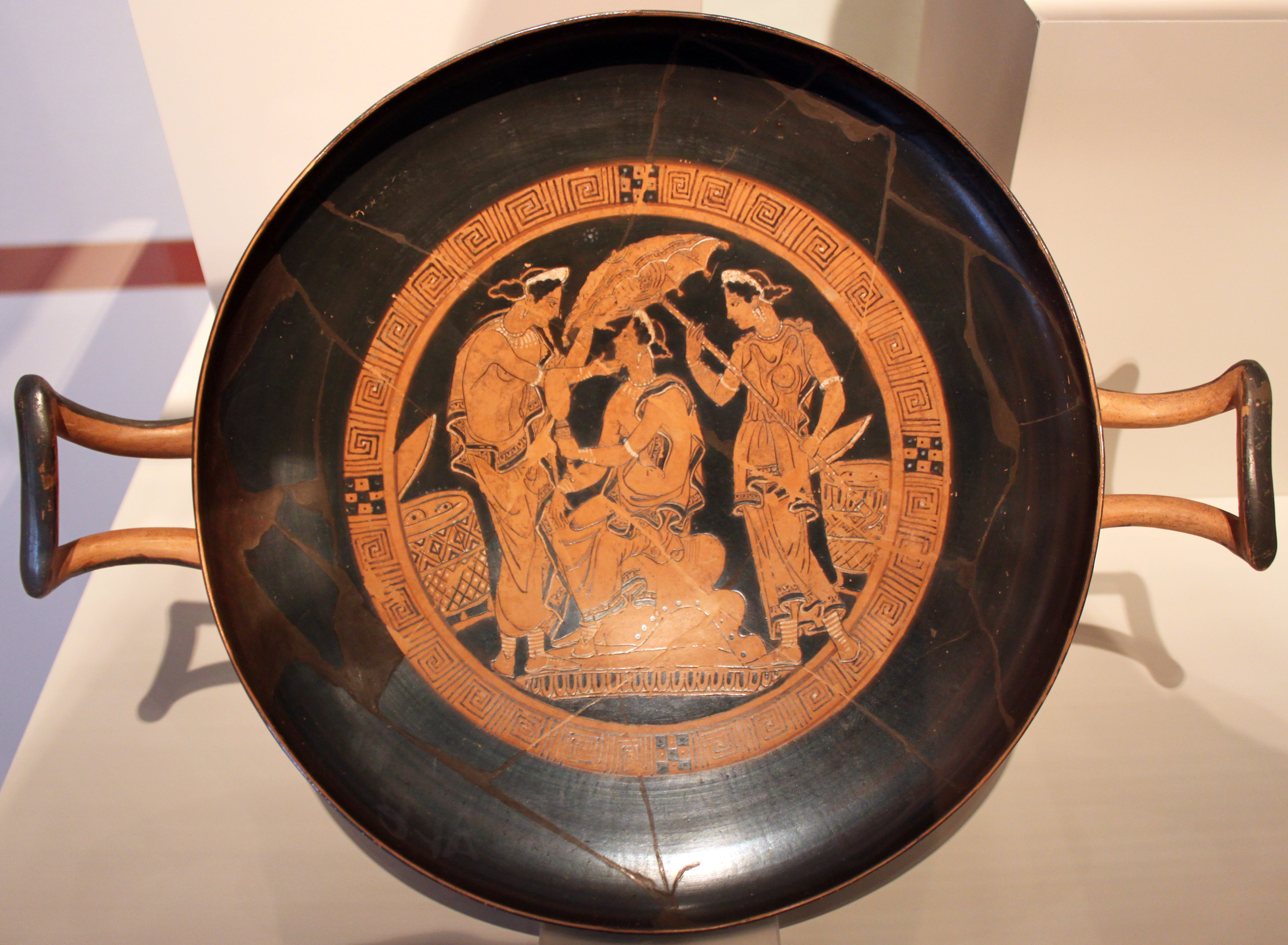 Etruscan Drinking Cup from Chiusi (Italy); 350-300 BC Altes Museum Native nameAltes MuseumParent institutionBerlin State MuseumsLocationBerlinCoordinates52° 31′ 10″ N, 13° 23′ 54″ E Established1828Web page control : Q156722 VIAF: 202689698 ISNI: 0000 0001 0940 5889 LCCN: n83197241 GND: 4506837-9 WorldCat institution QS:P195,Q156722 Section: Life and Death in Rome, F 2945